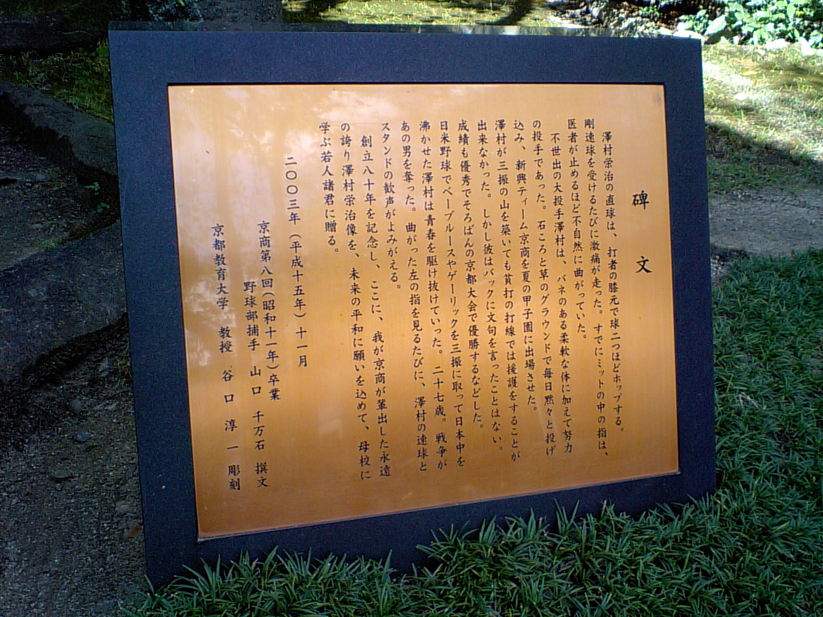 Message for the Statue of SAWAMURA Eiji at Kyoto Gakuen Junior/Senior High School